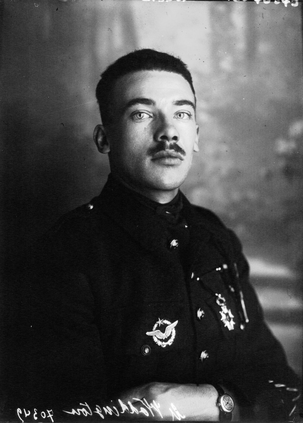 Mr Waddington, aviateur : [photographie de presse] / Agence Meurisse